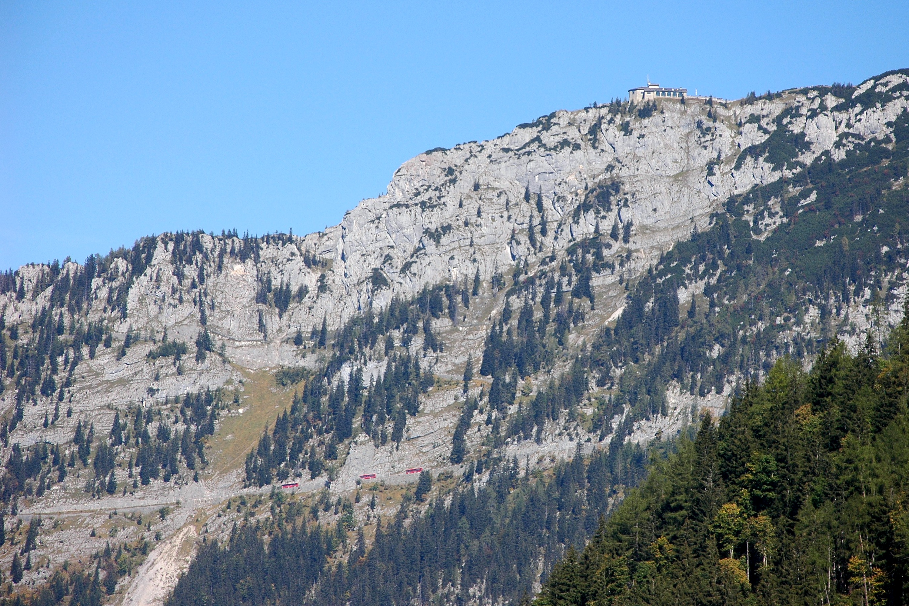 Three buses going down the Kehlstein street below the Kehlsteinhaus (Eagle's Nest).